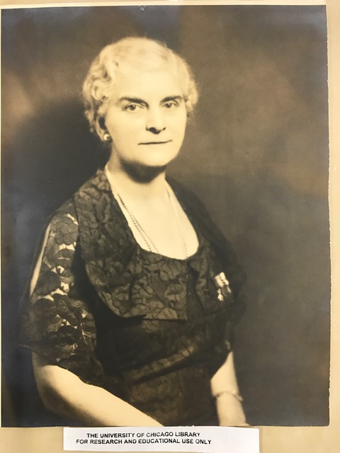 A later portrait of Charlotte Kellogg